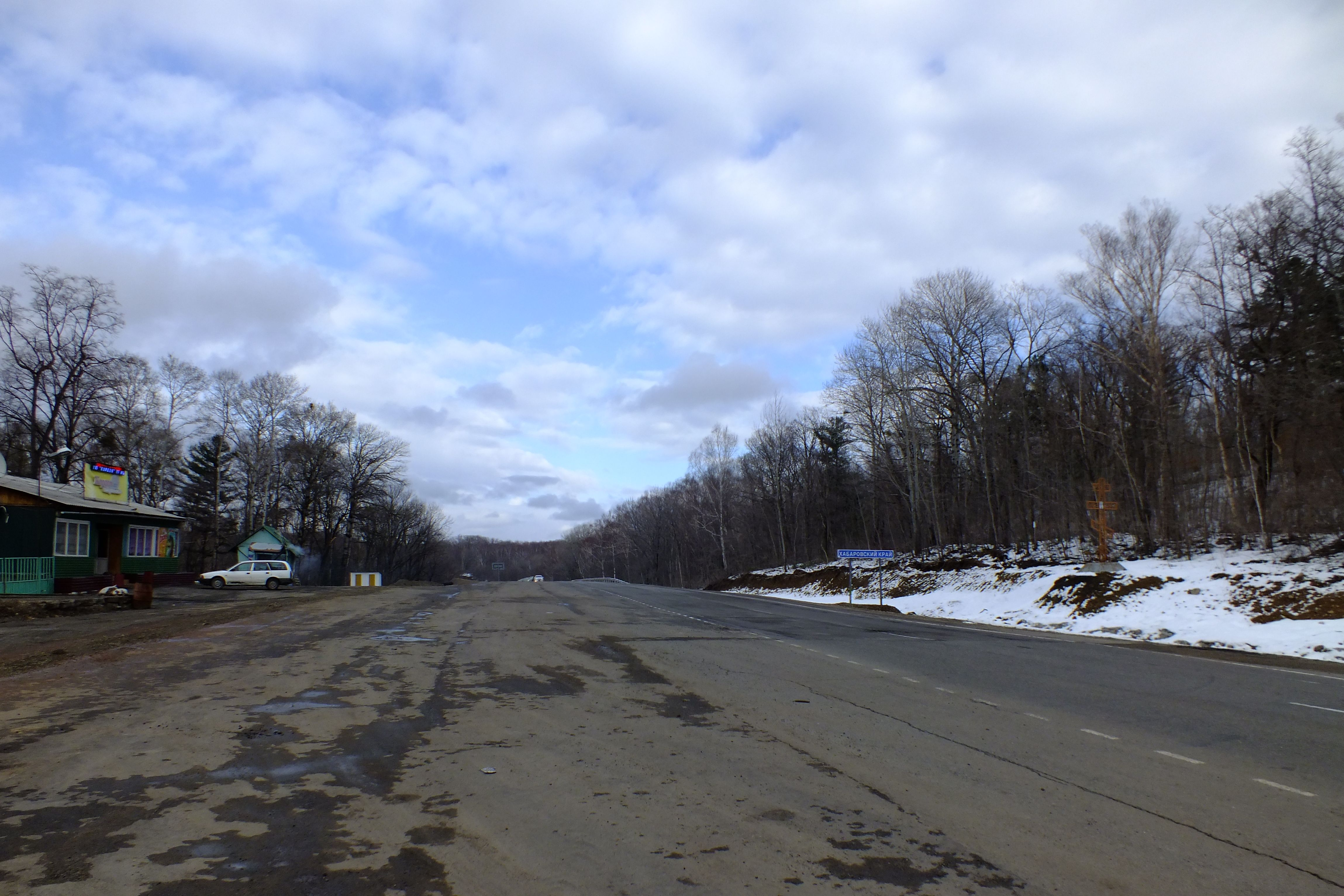 Highway Ussuri (M60), the border of Habarovsk and Primorsky Krays